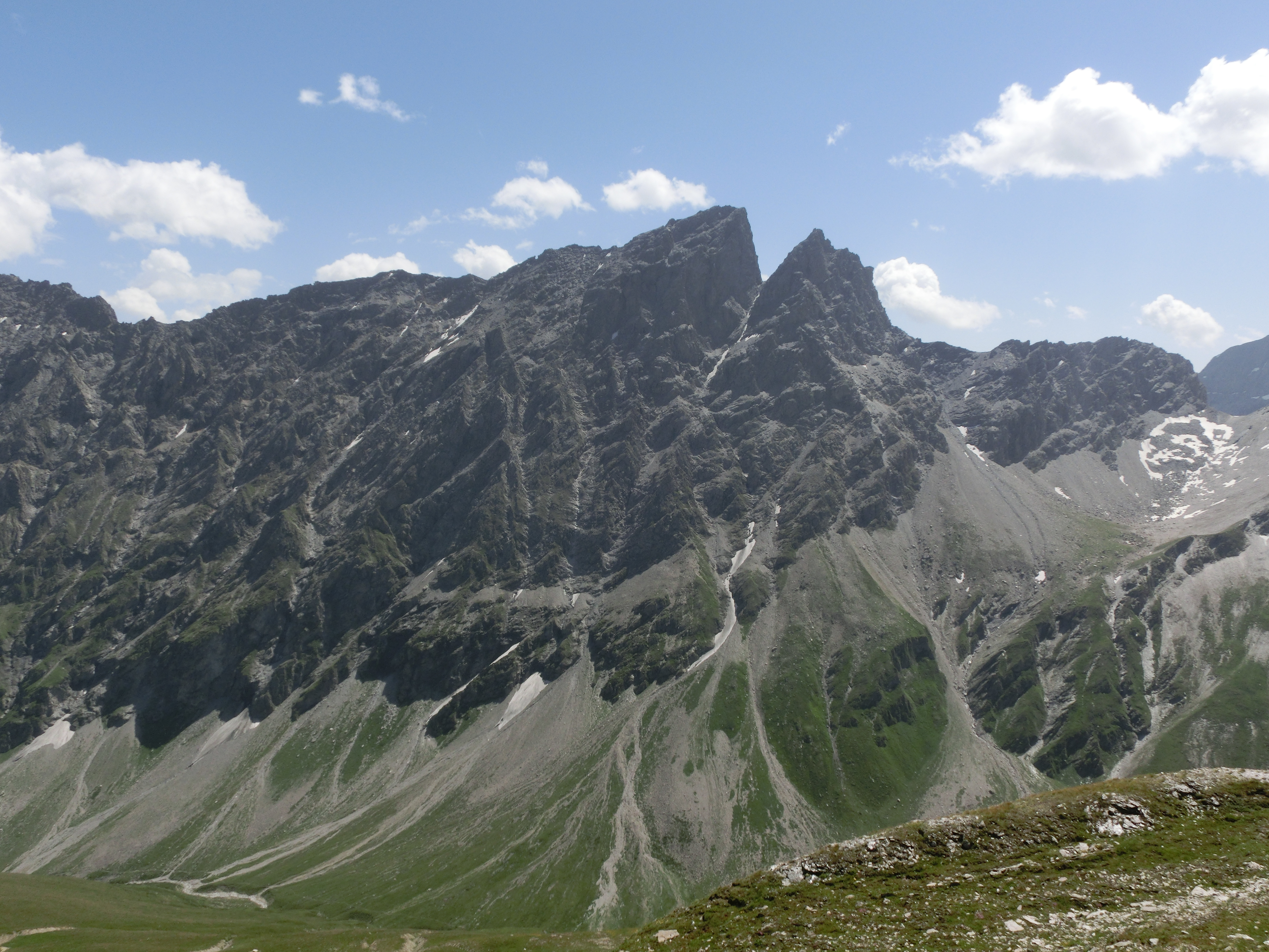 Piz Forbesch as seen from Piz Mez, Mulegns, Riom-Parsonz, Grison, SwitzerlandRumantsch: Piz Forbesch piglia se digl Piz Mez, Mulegns, Riom-Parsonz, Grischun, Svizra